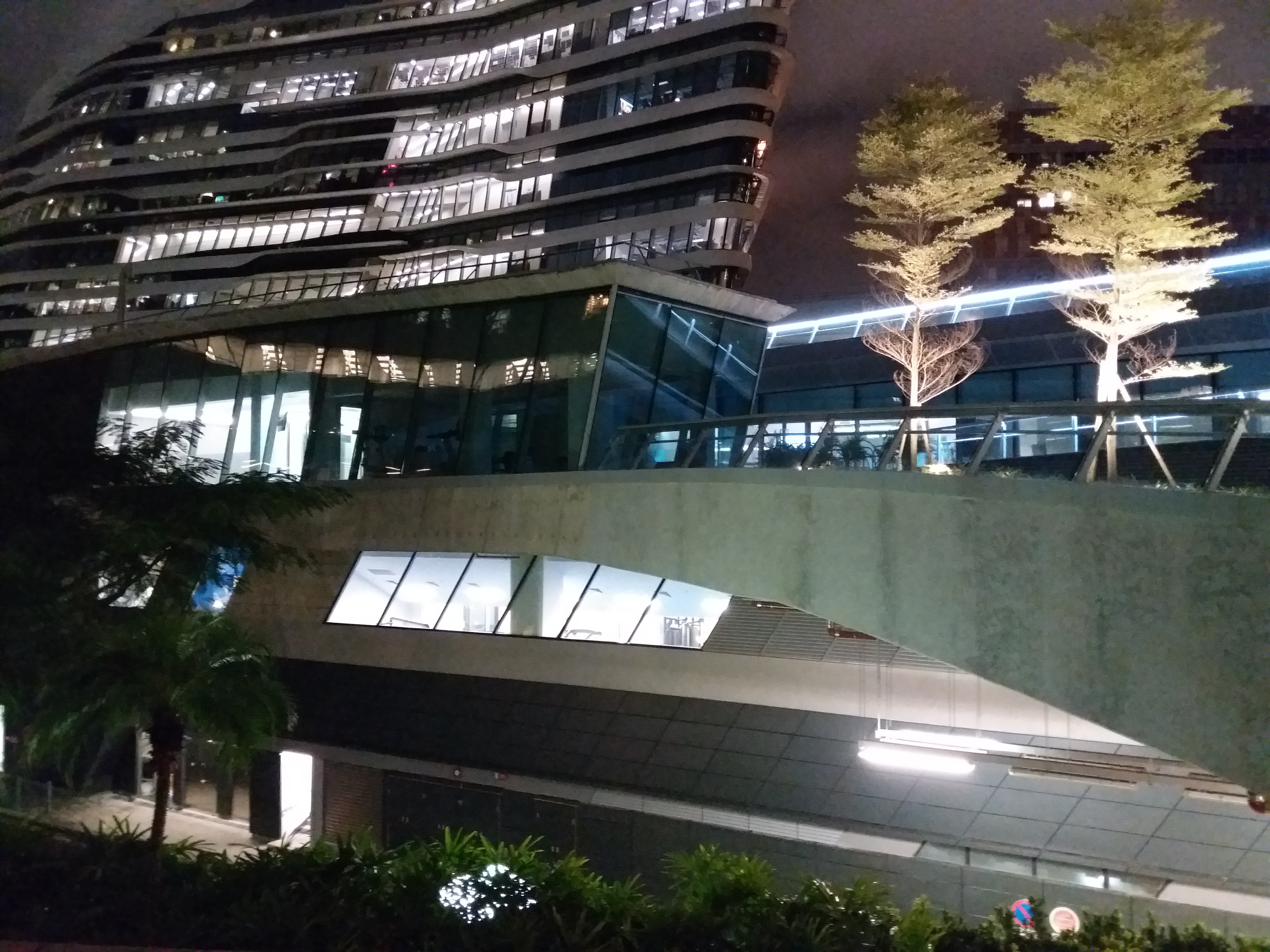 Block X at HKPU campus.